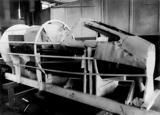 Fuselage mock-up of the Messerschmidt P.1112/V1 discovered by the US Army at Oberammergau in April 1945